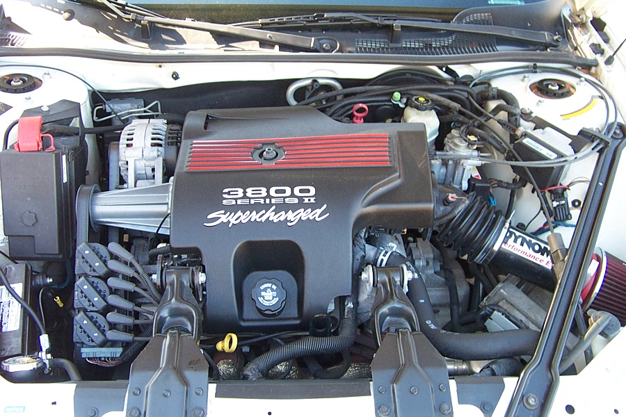 Supercharged 3800 V6 engine in a 1998 Buick Regal. Aftermarket supercharger pulley and intake. Pontiac Grand Prix engine cover. Corvette oil cap Digitaloutsider 22:28, 30 November 2006 (UTC) --Digitaloutsider 03:54, 6 August 2006 (UTC)